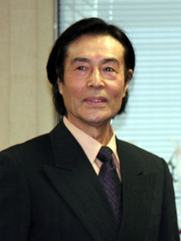 Gō Katō, Member of the National Commission for Promotion of Health Japan 21, Ministry of Health, Labour and Welfare, received the Letter of Appointment as the Goodwill Ambassador for Health of the Ministry of Health, Labour and Welfare from Yōichi Masuzoe, Minister of Health, Labour and Welfare, at the Central Government Building No.5 in Chiyoda Ward, Tōkyō Metropolis on November, 2007.